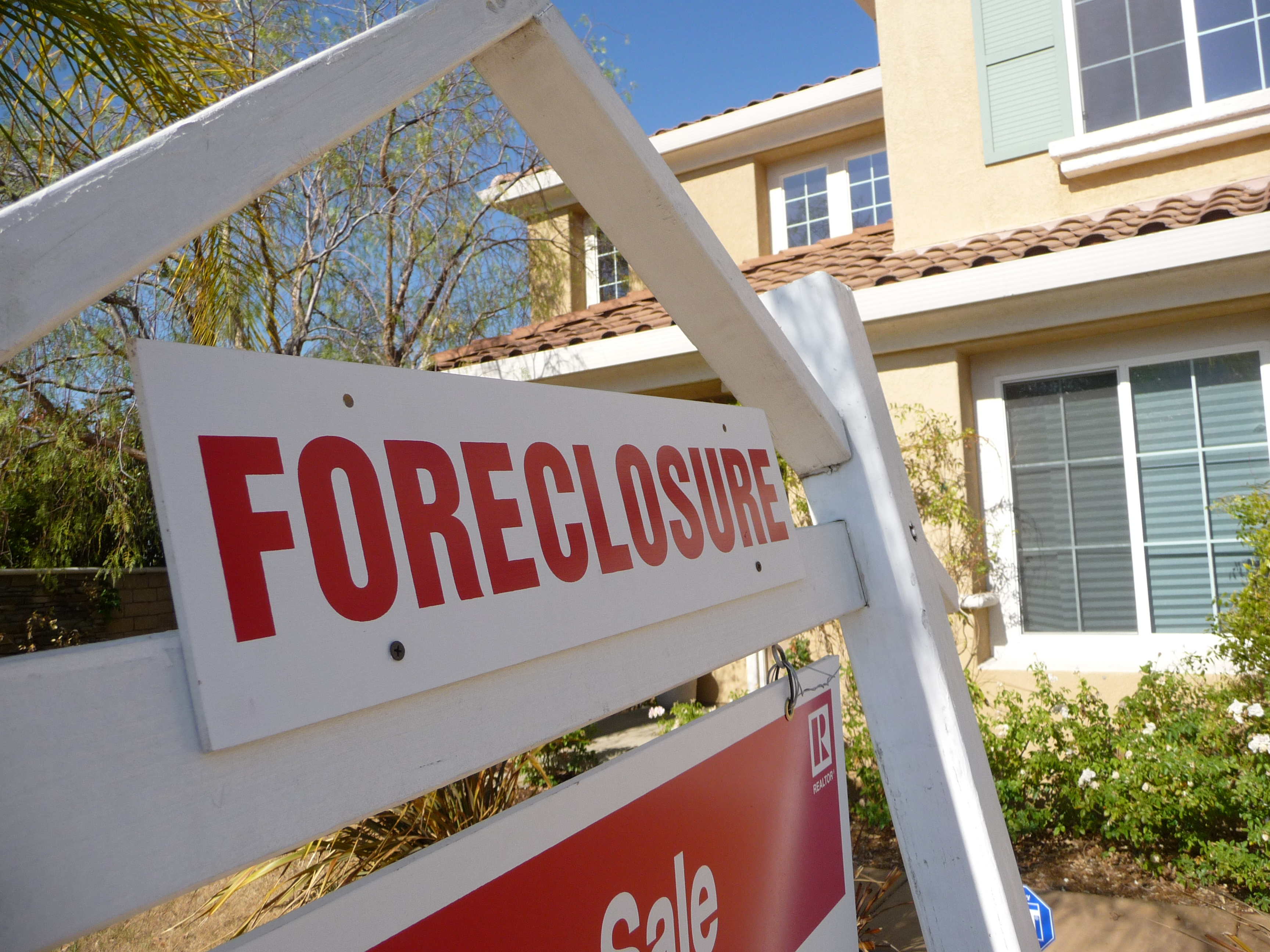 Sign of the times - Foreclosure